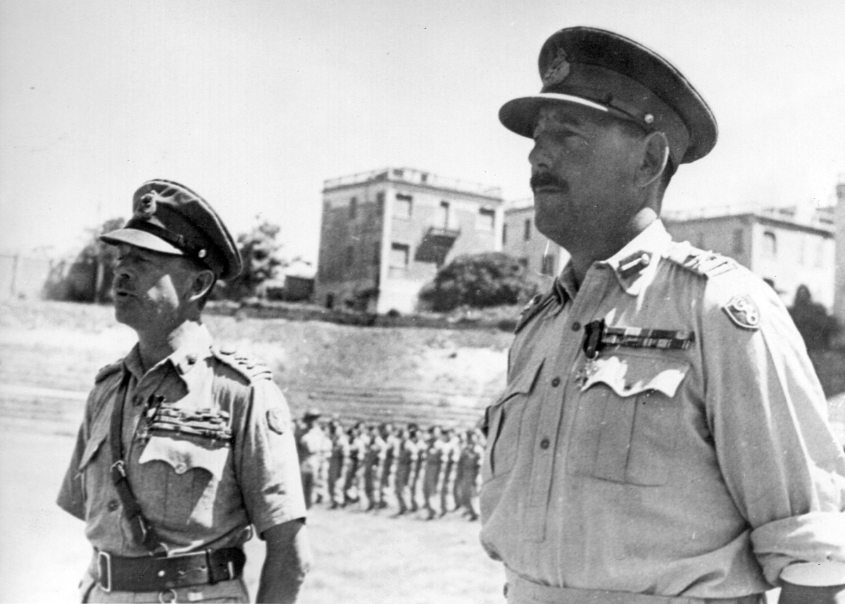 Marshall Alexander and general Leese decorated with Polish Virtuti Military Cross in July 1944 in Italy